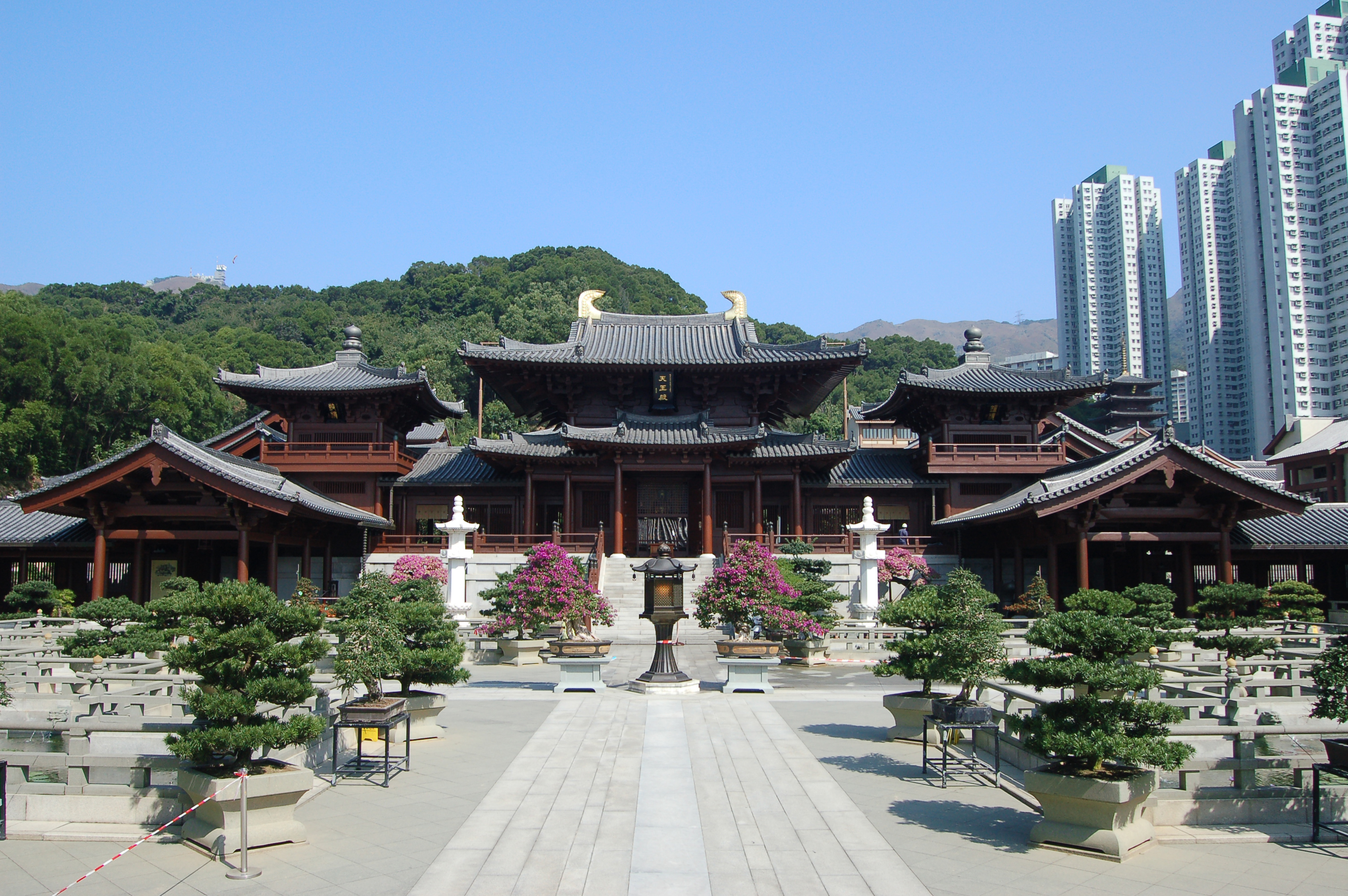 Chi Lin Nunnery